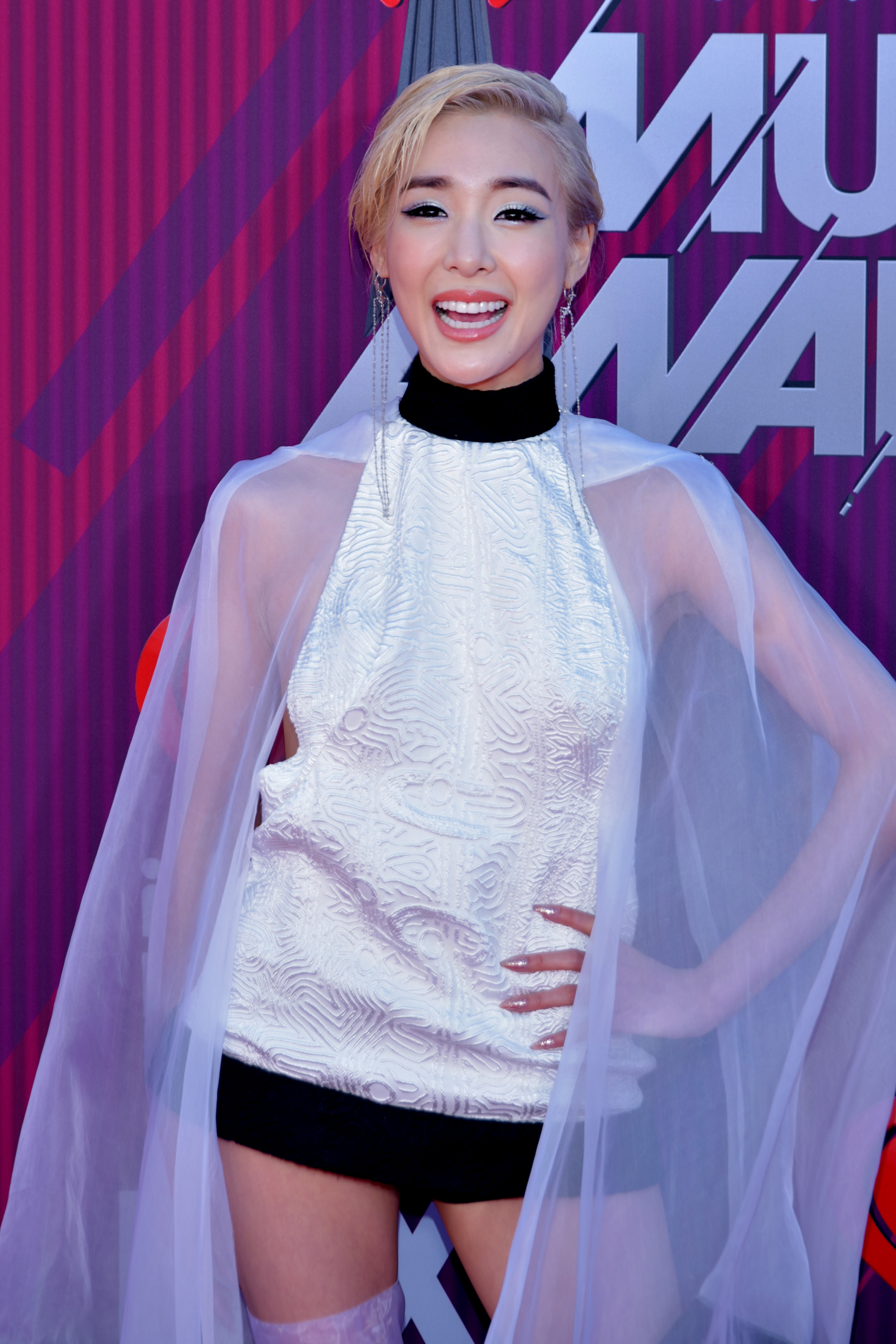 Tiffany Young attends the 2019 iHeartRadio Music Awards in Los Angeles, California - Photo by Glenn Francis of